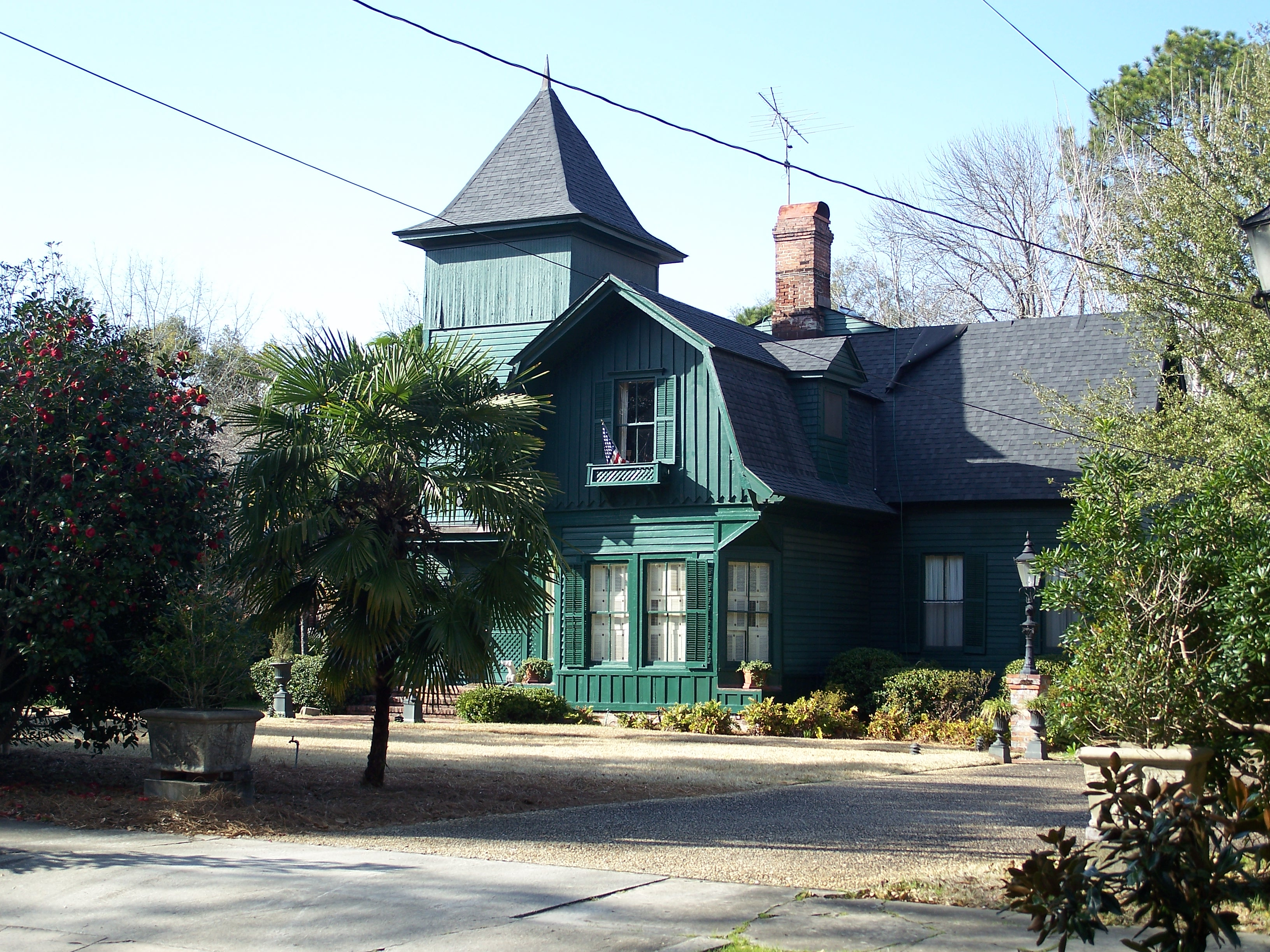 Thomasville, Georgia: Tockwotton-Love Place Historic District: House in the district at 437 Remington Avenue (identified by Google Streetview imagery of June 2013 and by map on page 9 of NRHP nomination document).